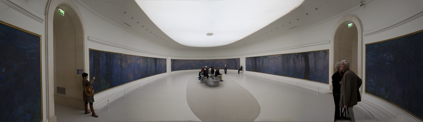 Monet's water lilies in the Musée de l'Orangerie in Paris, France